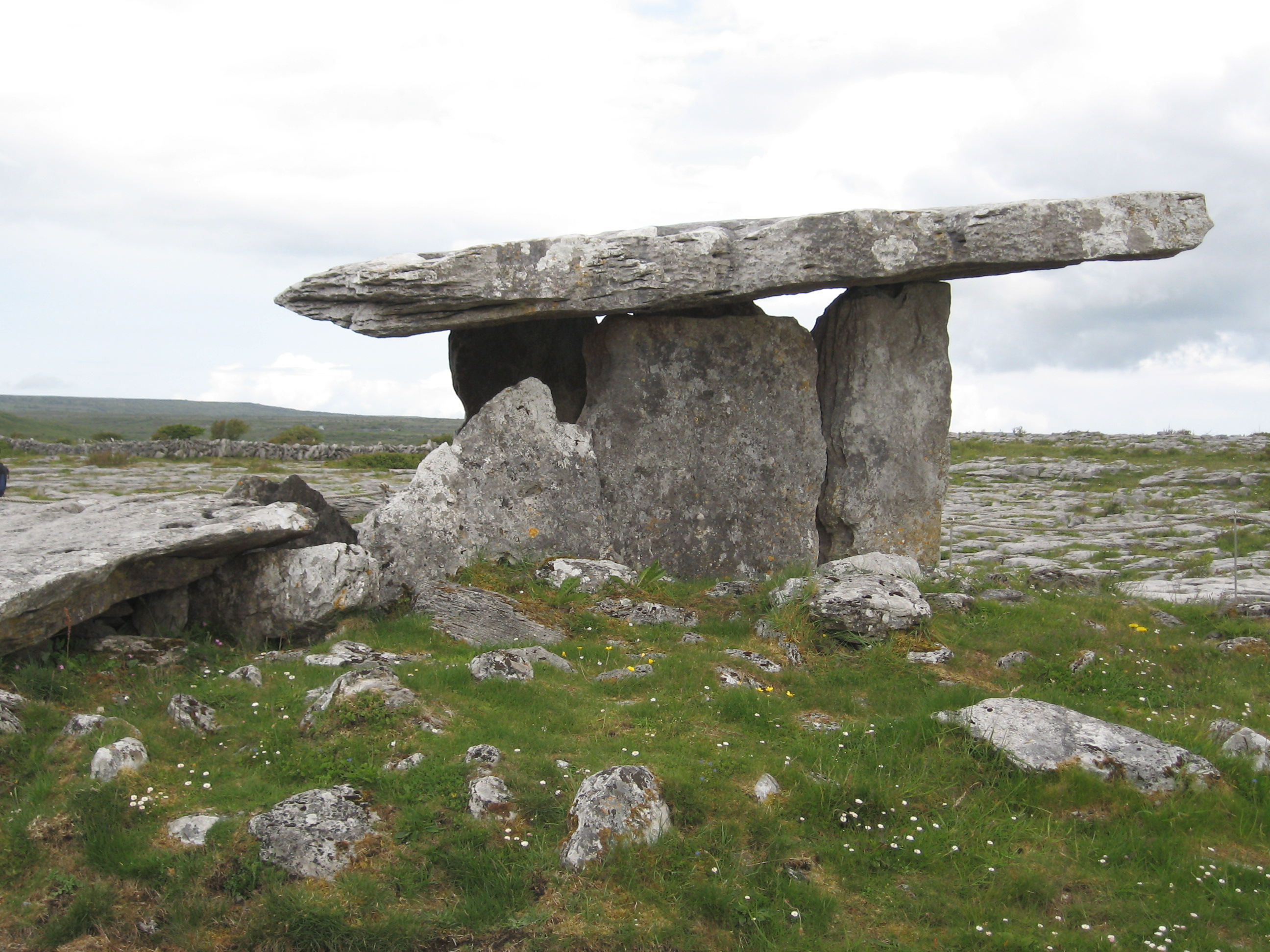 Poulnabrone, a megalithic passage tomb in the Burren